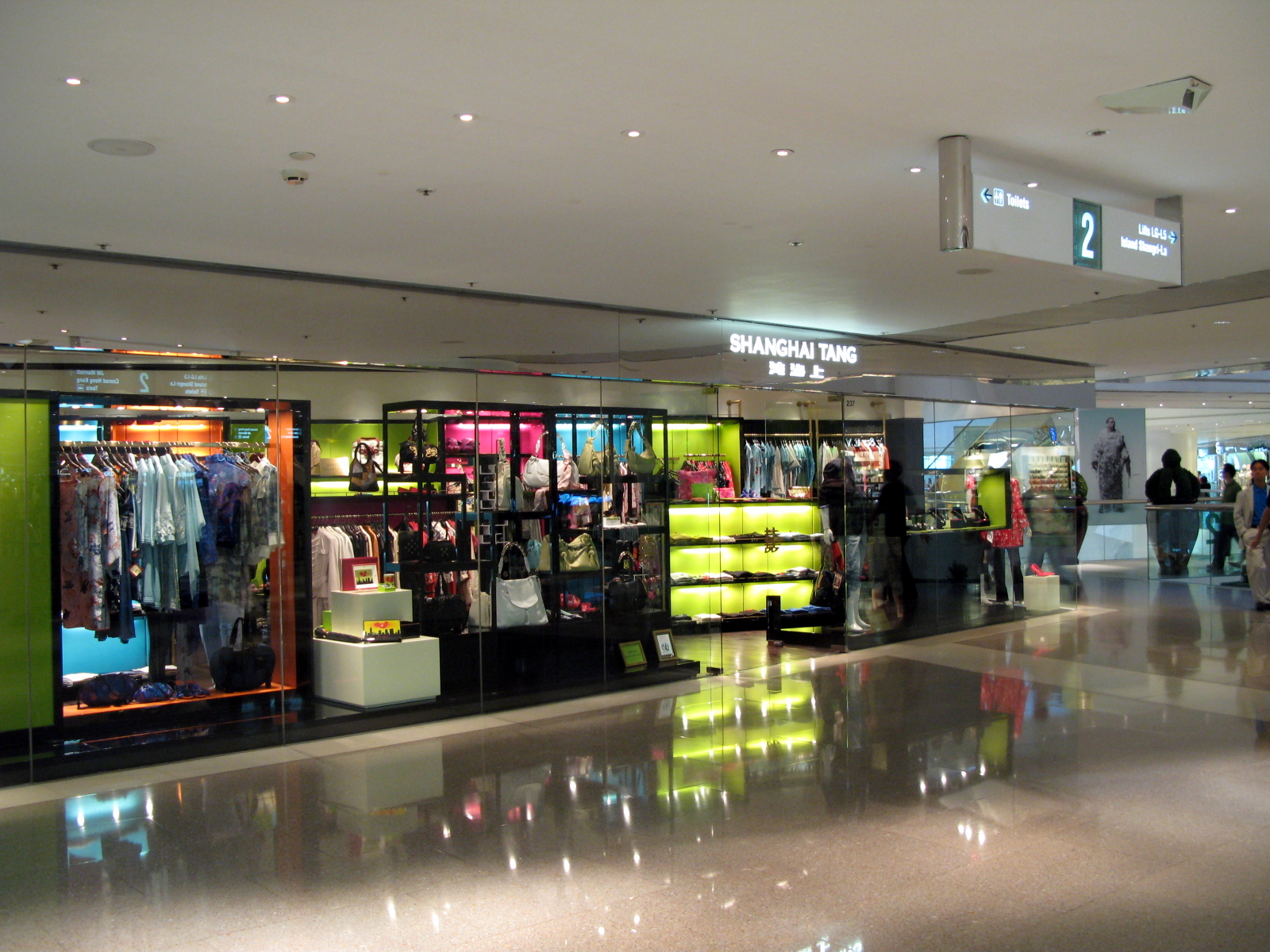 HK Pacific Place Shang Hai Tang Store